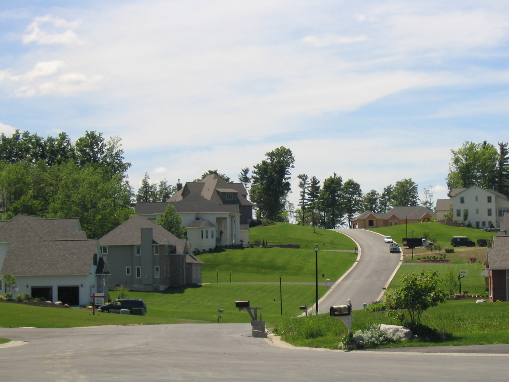 photo of an upscale housing development in the hills of Onondaga, taken by me on June 4, 2004